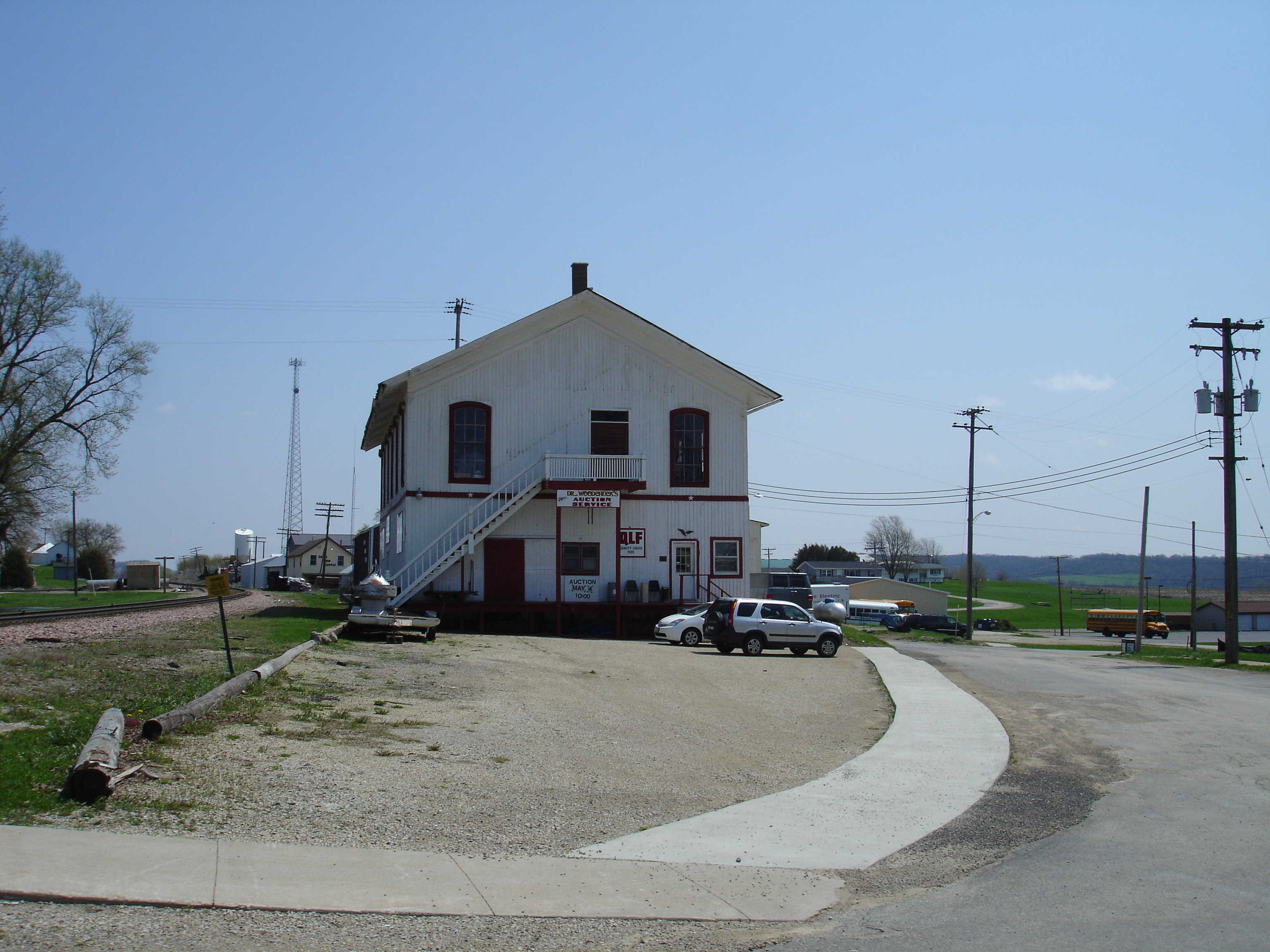 Allan Warehouse, a part of the Scales Mound Historic District in Scales Mound, Illinois